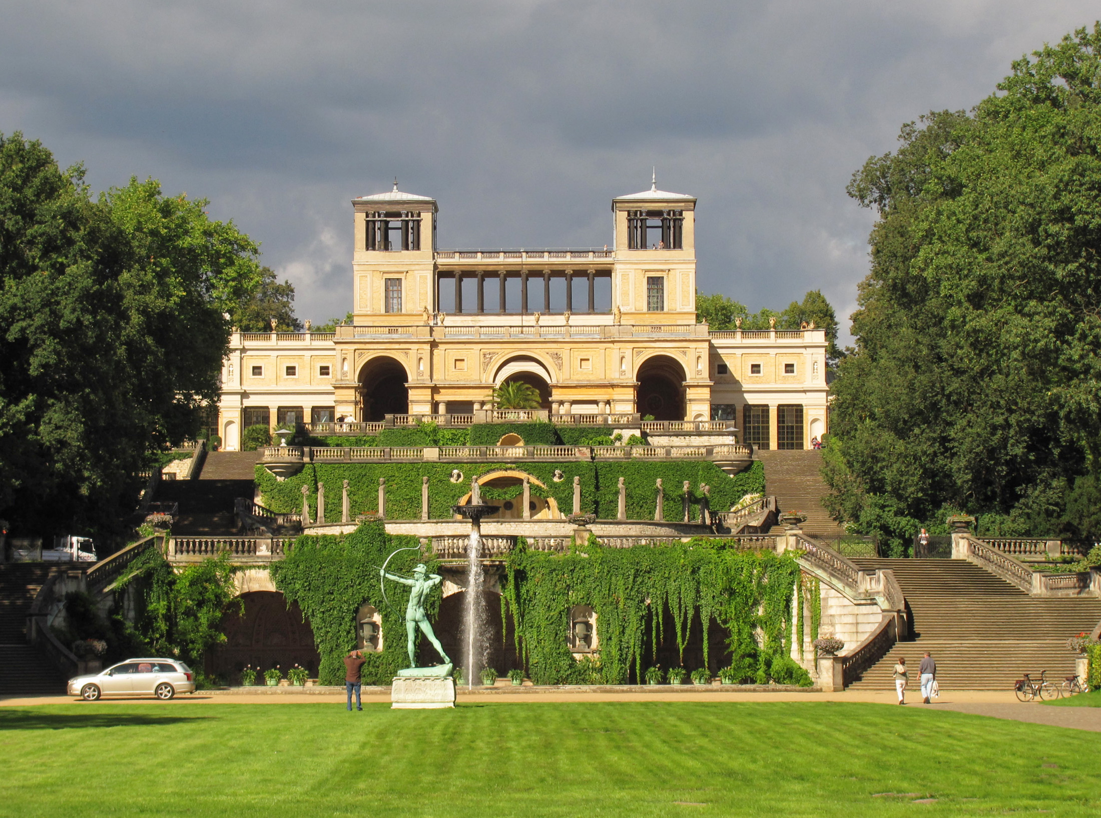 Orangerieschloss in Potsdam, 2010. This photograph was taken with a Canon PowerShot SX120 IS